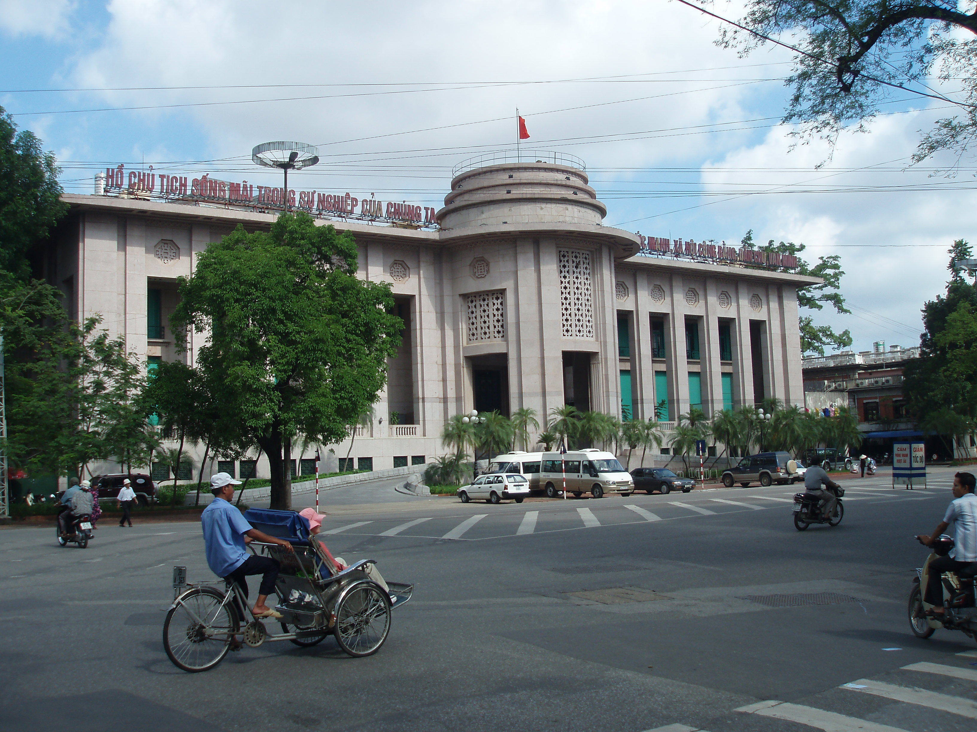 Headquarter of Vietnam National Bank.